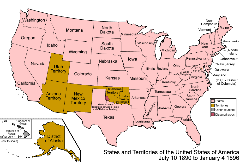 Map of the states and territories of the United States as it was from July 10 1890 to January 1896. On July 10 1890, Wyoming Territory was admitted as the state of Wyoming. On January 4 1896, Utah Territory was admitted as the state of Utah. Also, on July 4 1894, the Kingdom of Hawaii became the Republic of Hawaii.